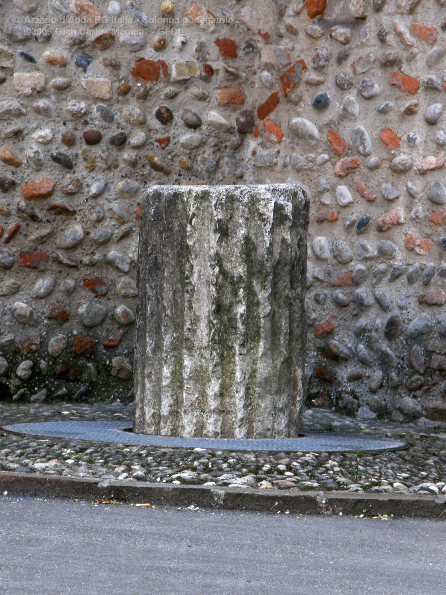 Column in Arzago d'Adda, Bergamo, Italy